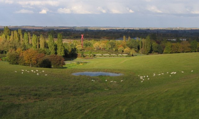 Sheep in Campbell Park. The rolling hills of Milton Keynes